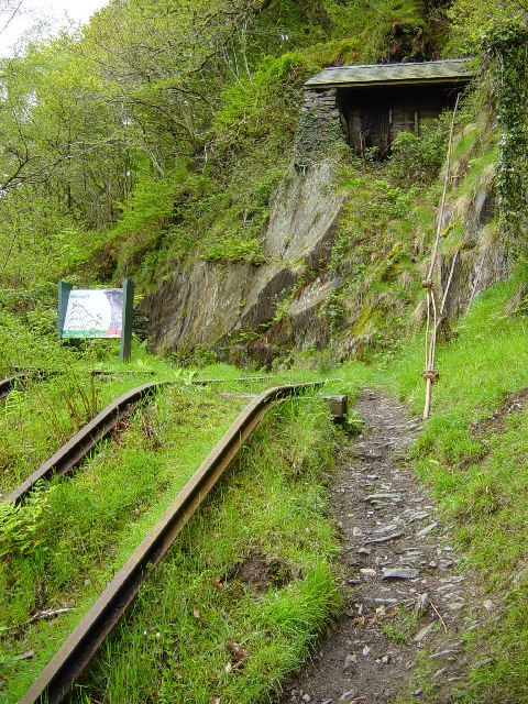 Incline above Nant Gwernol on the Talyllyn Railway